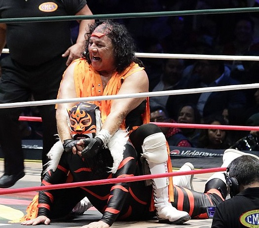 Viernes 30 de noviembre de 2018Arena México, ceremonia de develación de la placa conmemorativa por el reciente decreto de la Lucha Libre como Patrimonio Cultural Intangible de la Ciudad de México, estuvieron presentes autoridades del Consejo Mundial de Lucha Libre, y autoridades del gobierno de la CMDX, entre ellos Gabriela López Torres, coordinadora de Patrimonio Histórico Artístico y Cultural de la Secretaría de Cultura de la CDMX, además de invitados especiales.Fotografía: Tania Victoria/ Secretaría de Cultura CDMX